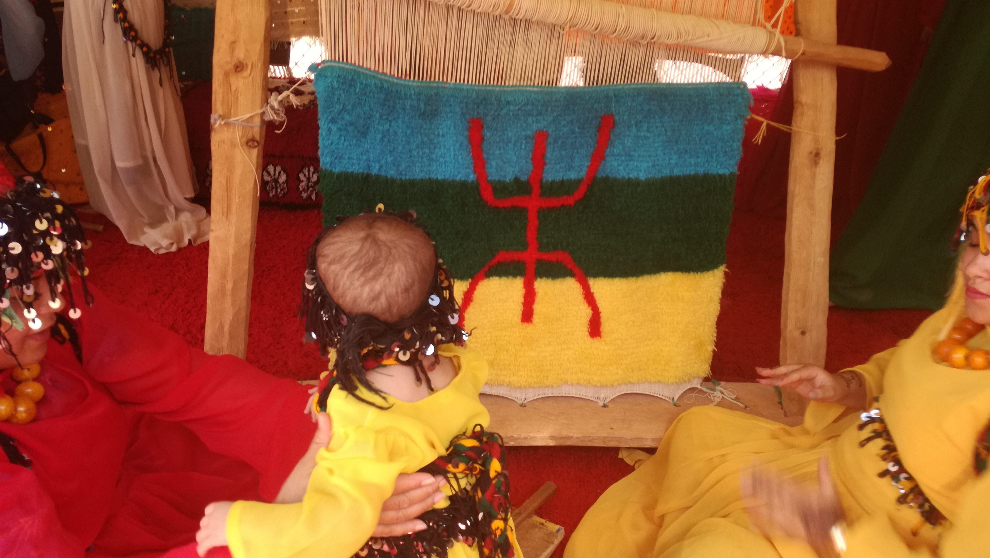 This is an image with the theme "Africa on the Move or Transport" from: Morocco